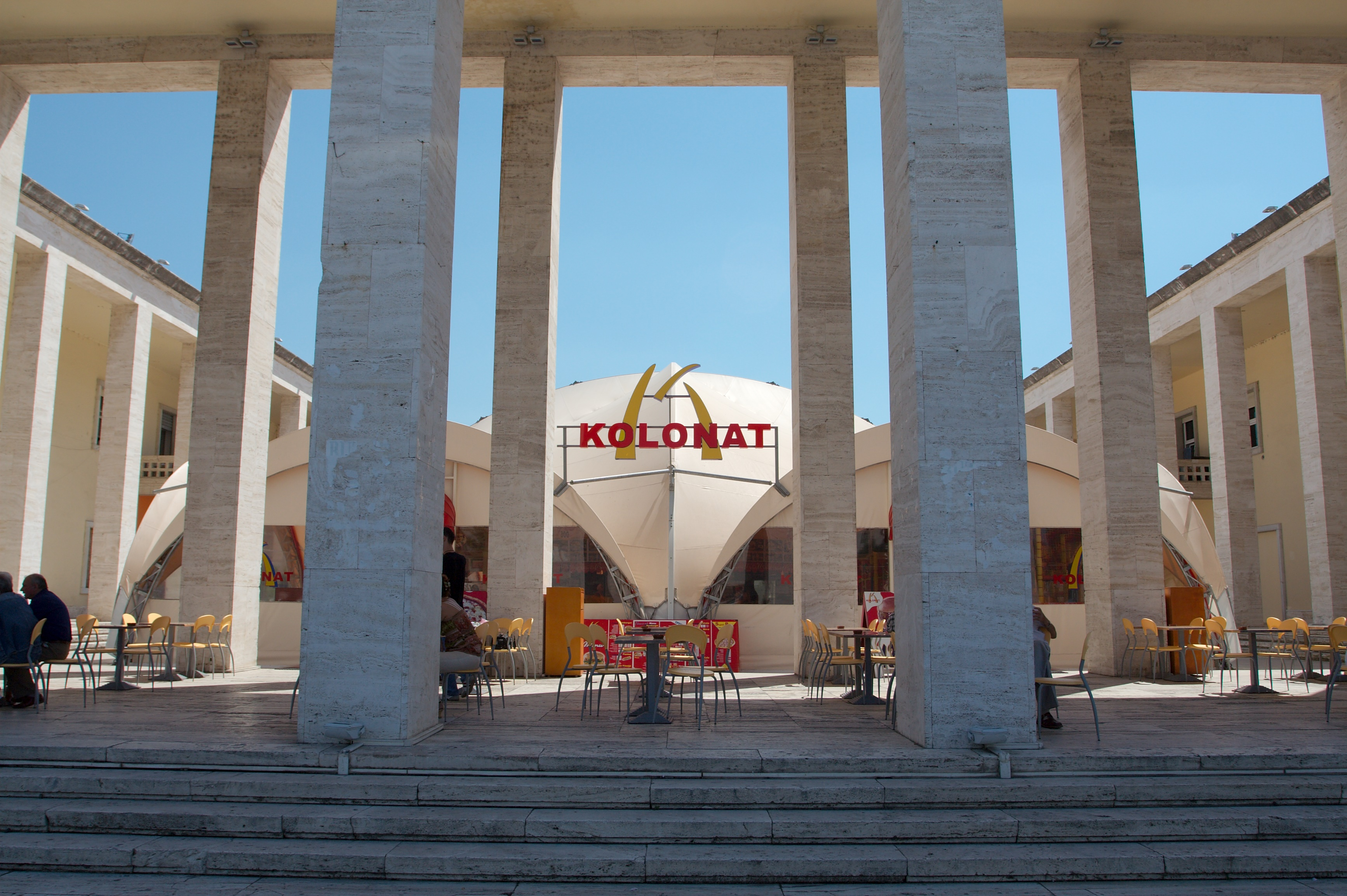 Kolonat (the columns), a McDonald's look-alike fast food restaurant in Tirana, Albania